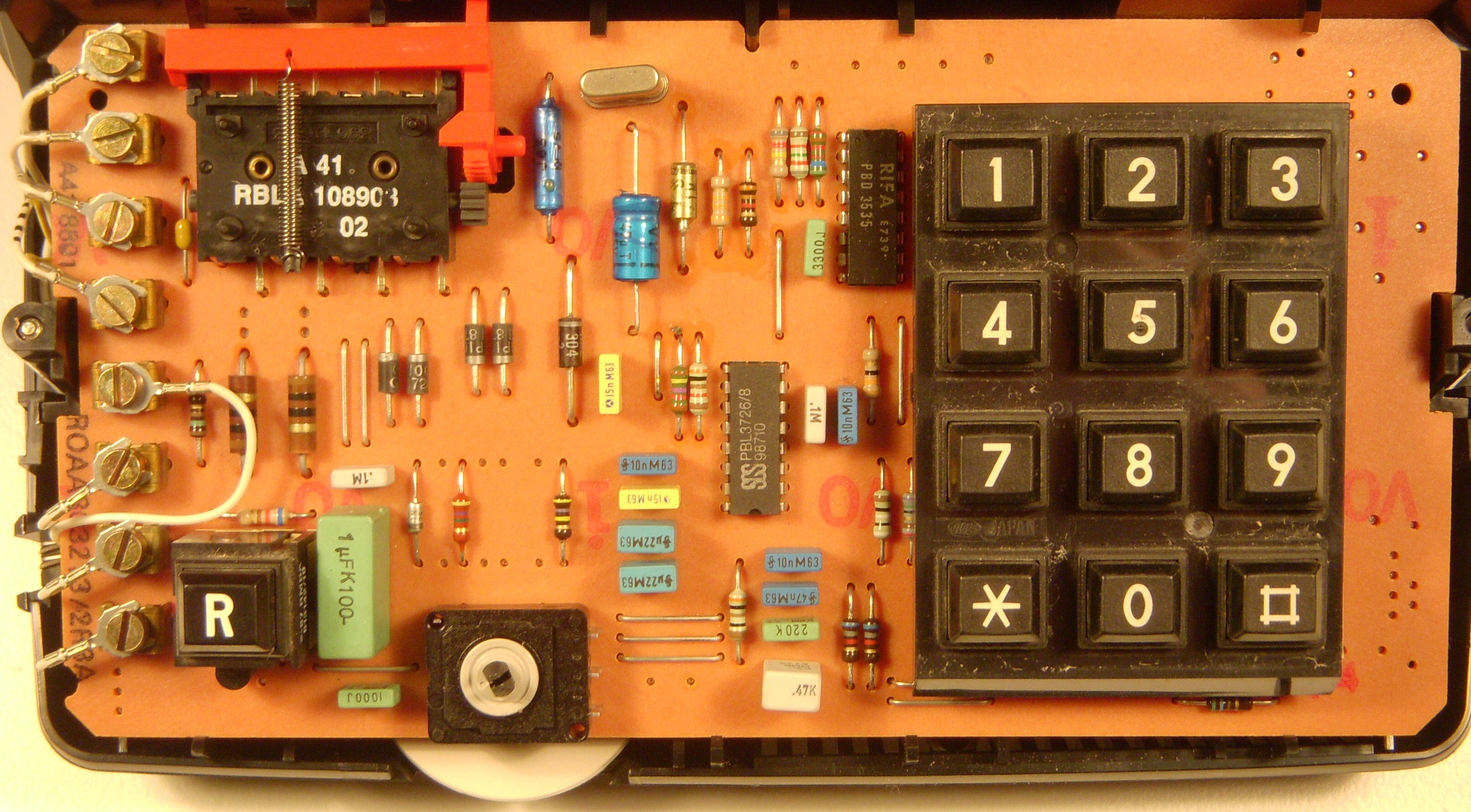 Ericsson Diavox telephone, made for Televerket (national telecom), Sweden.